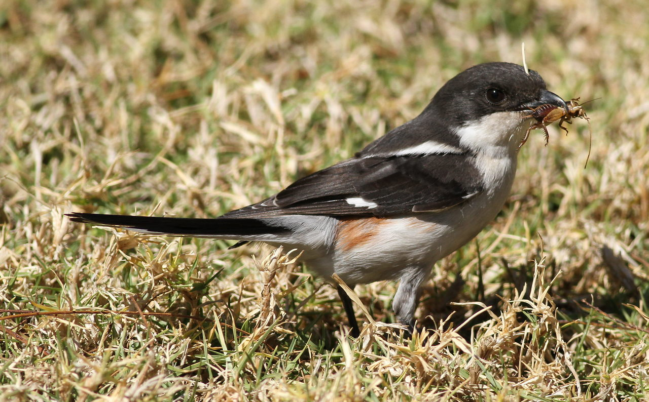 Female southern fiscal (common fiscal), Lanius collaris caught a cricket at Walter Sisulu National Botanical Garden, Johannesburg, South Africa